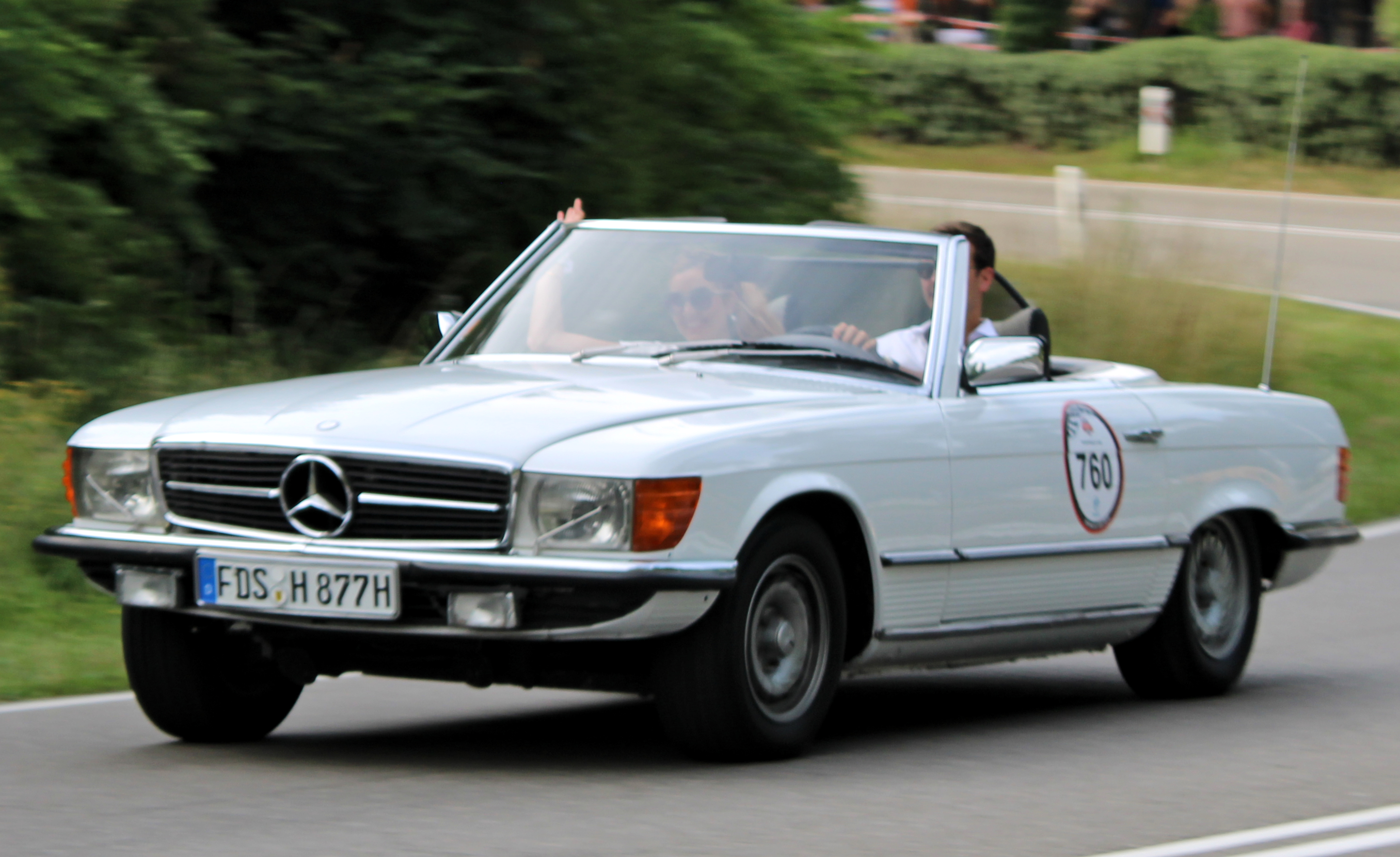 Mercedes Benz 350 SL (1976) at Solitude Revival 2019